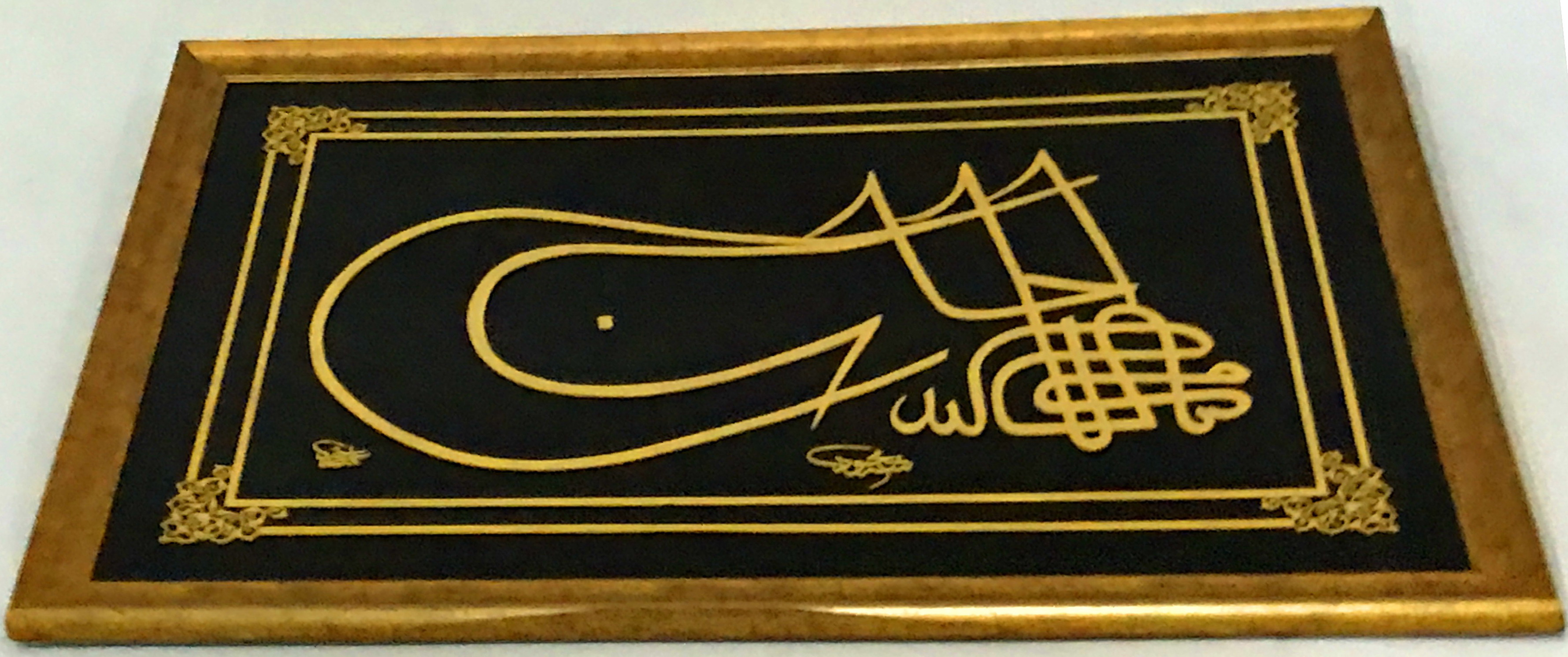 The Green Tomb (Yeşil Türbe) is a mausoleum of the fifth Ottoman Sultan, Mehmed I, in Bursa, Turkey. It was built by Mehmed's son and successor Murad II following the death of the sovereign in 1421. The architect, Hacı Ivaz Pasha designed the tomb and the Yeşil Mosque opposite to it